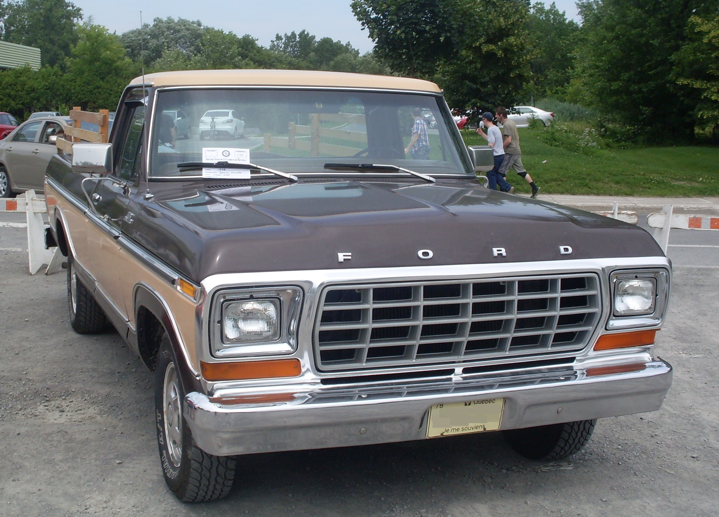 1979 Ford F-Series photographed in Laval, Quebec, Canada at Auto classique VACM Laval.